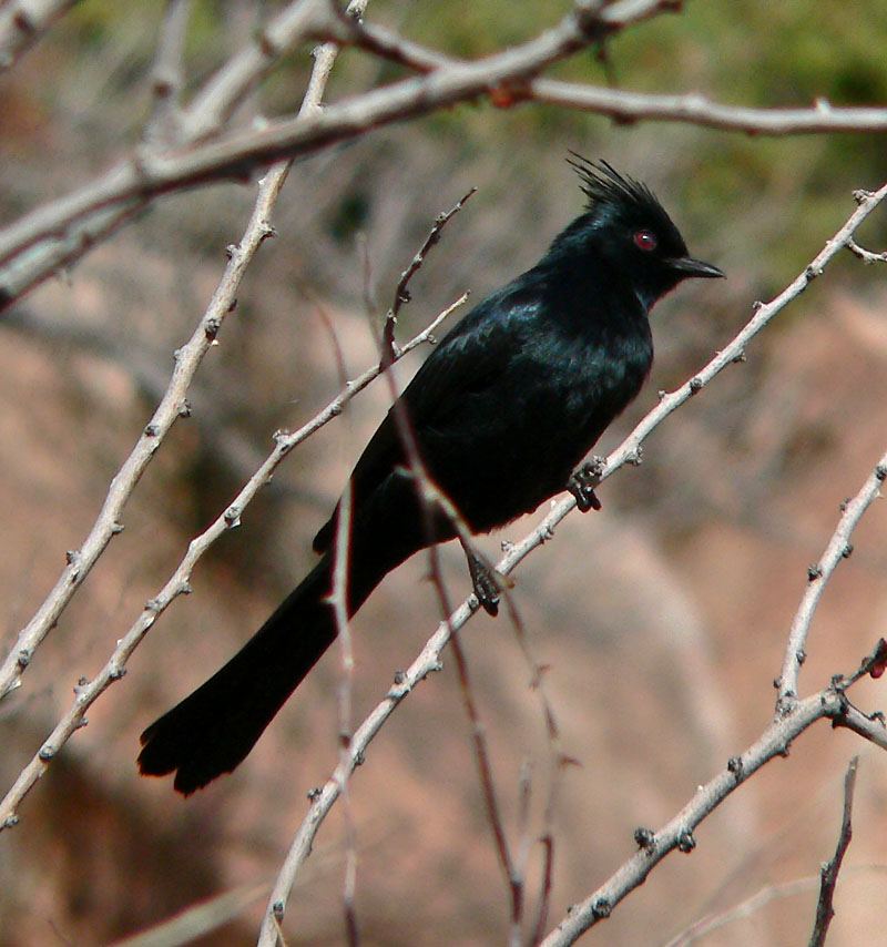 Phainopepla nitens near Red Spring, Calico Basin, Spring Mountains, southern Nevada